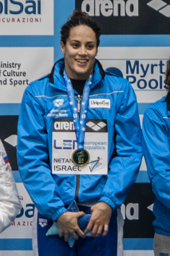 Swimmer Erika Ferraioli wearing the gold medal she won at the 2015 European Short Course Swimming Championships in Netanya